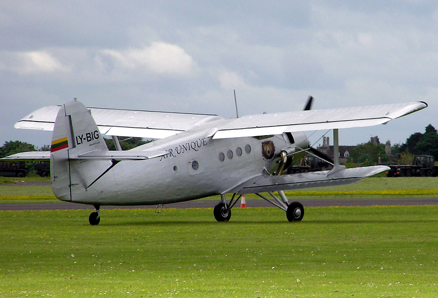 Antonov An-2 (LY-BIG) at Hullavington Airfield, Wiltshire, England. This is a flying aircraft, not a museum exhibit. Photographed by Adrian Pingstone in May 2005 and placed in the public domain.